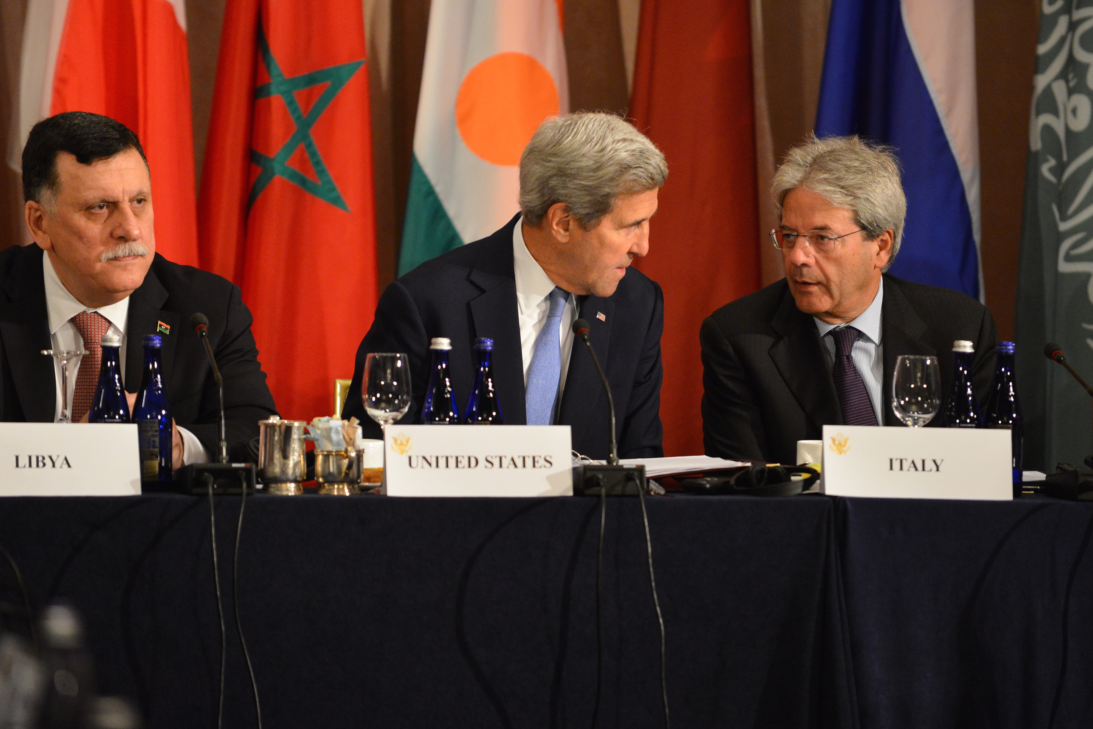 U.S. Secretary of State John Kerry participates in an Italian co-hosted Libya Ministerial meeting, at the Palace Hotel, in New York City, New York on September 22, 2016. [State Department Photo/Public Domain]